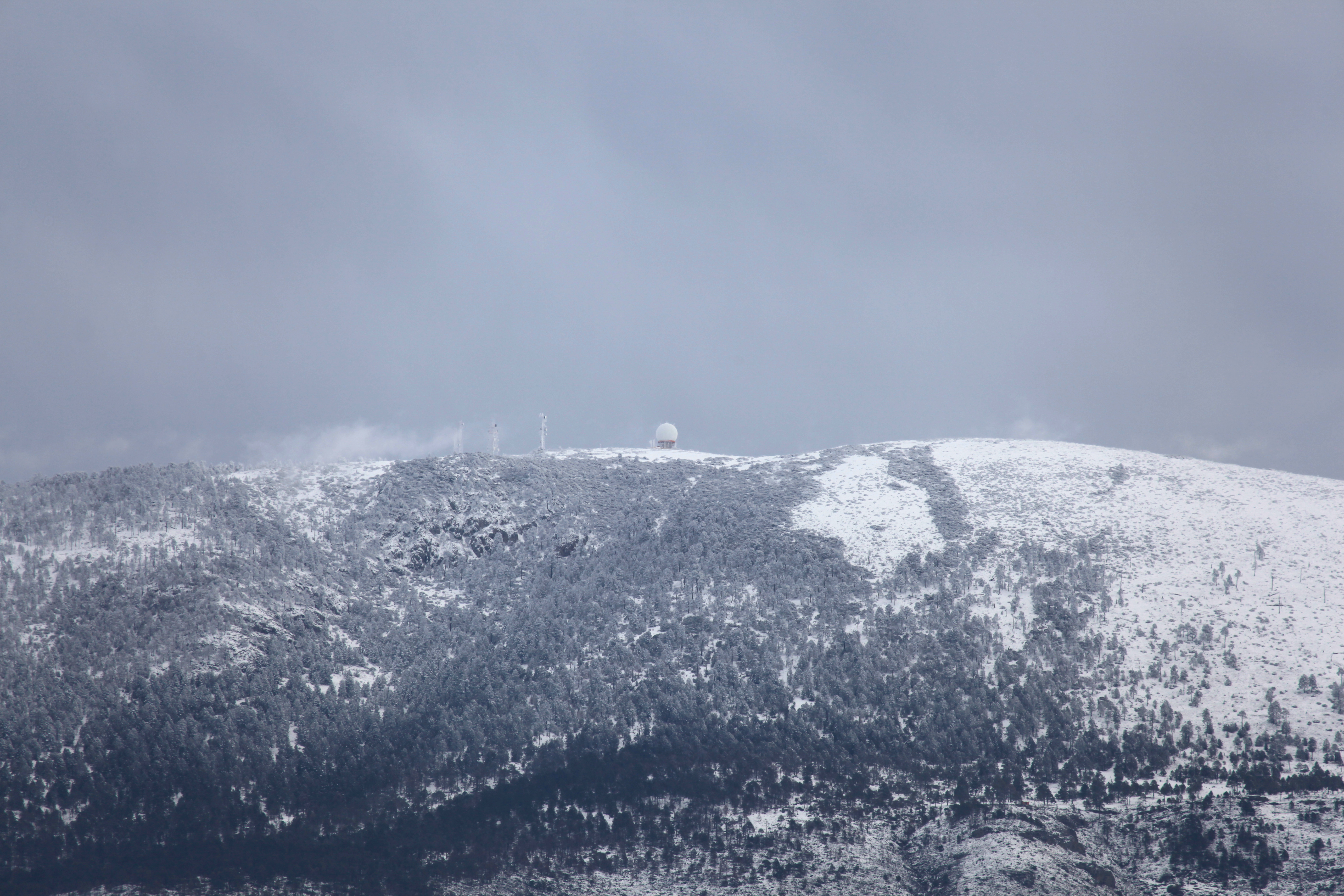 Cerro Potosí (3721 m), the highest summit in the Sierra Madre Oriental, northeast Mexico, viewed in winter from the Mexico 57 highway to the west. Microwave relay station visible on summit.